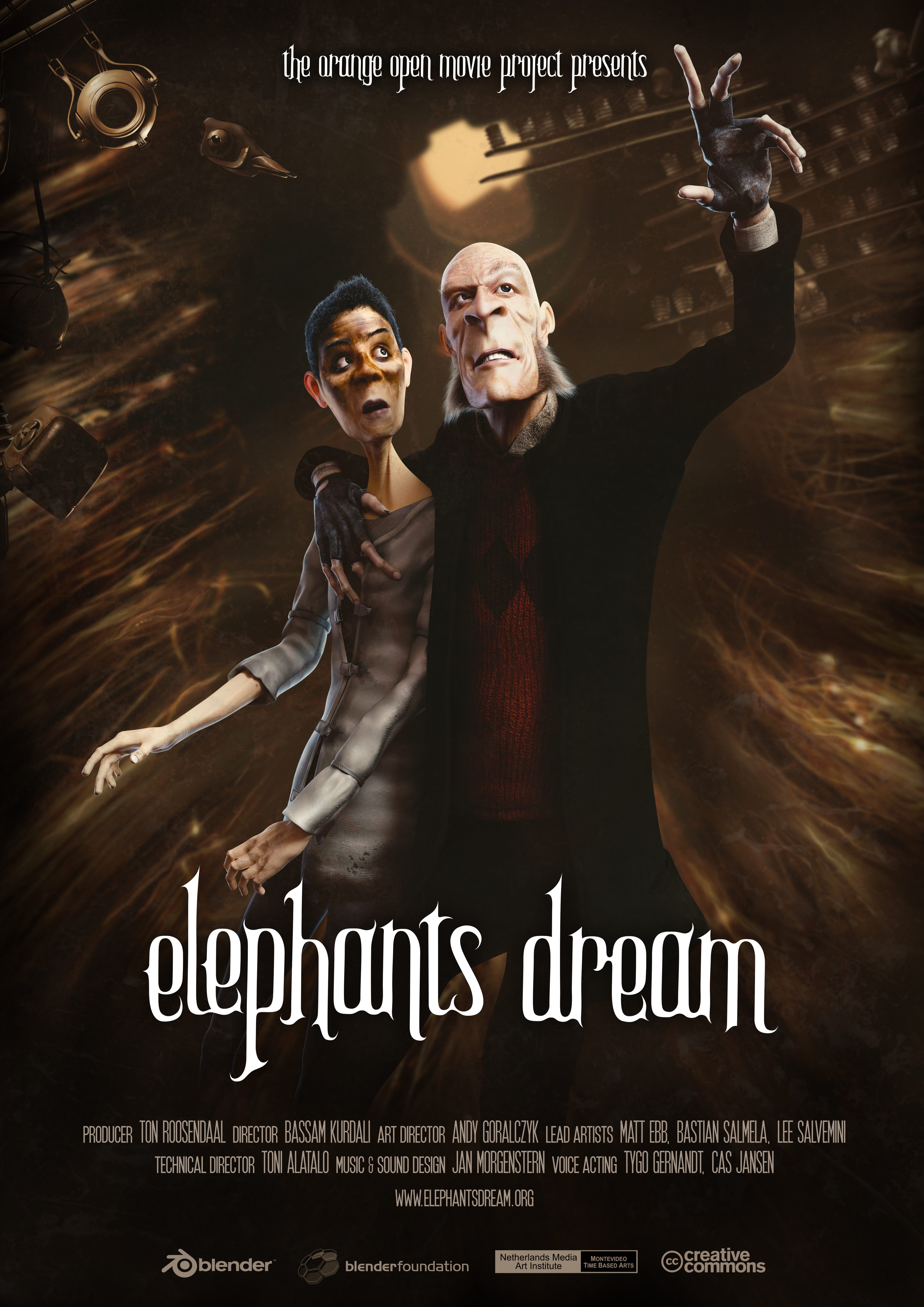 The official poster for the 2006 Blender animated film, Elephants Dream